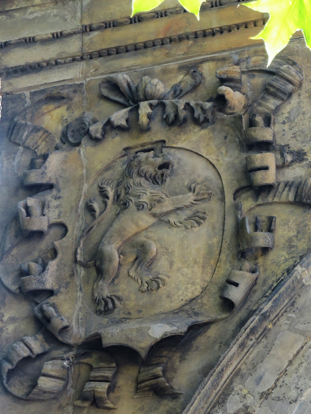 Coat of arms of Bohemia, Royal Summer Palace, Prague Castle